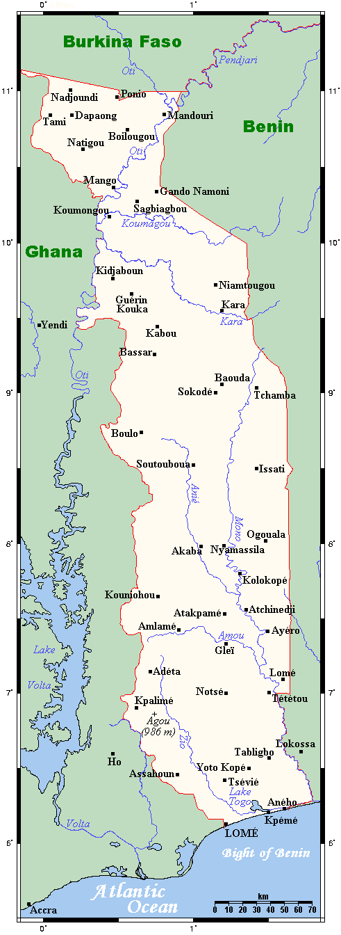 A map showing Togo's cities and main towns.